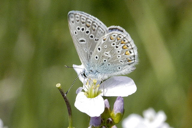 Picture taken in Commanster, Belgian High Ardennes . Species: Polyommatus icarus, male.